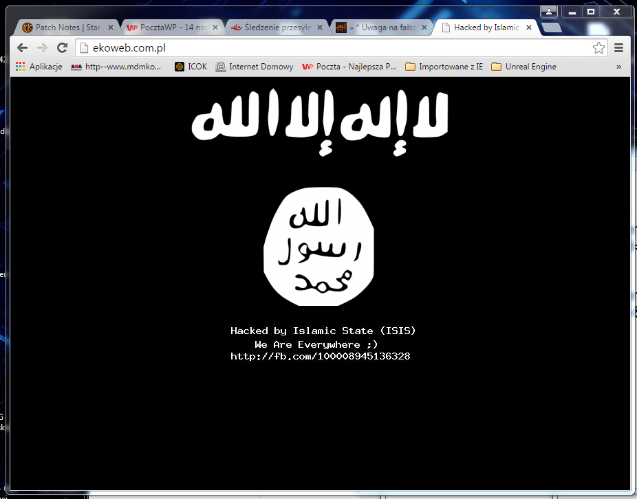 Directly under the domain Polish page is displayed that reads: Hacked by Islamic state (ISIS). See the procedure for filing in the RP and in the USA: [1]